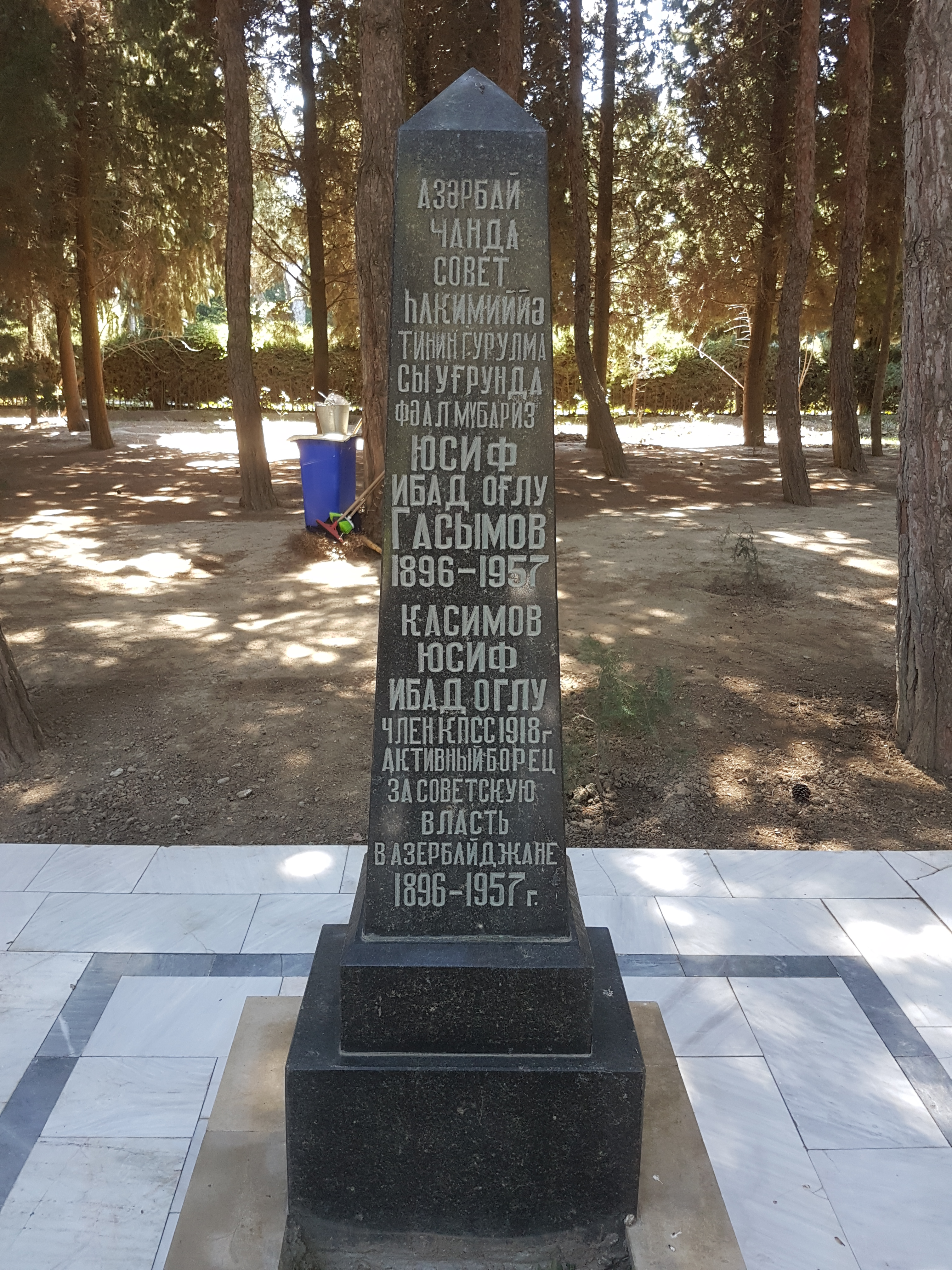 Grave of Yusif Gasimov, Ministry of Justice of Azerbaijan USSR. Alley of Honor, Baku, Azerbaijan.